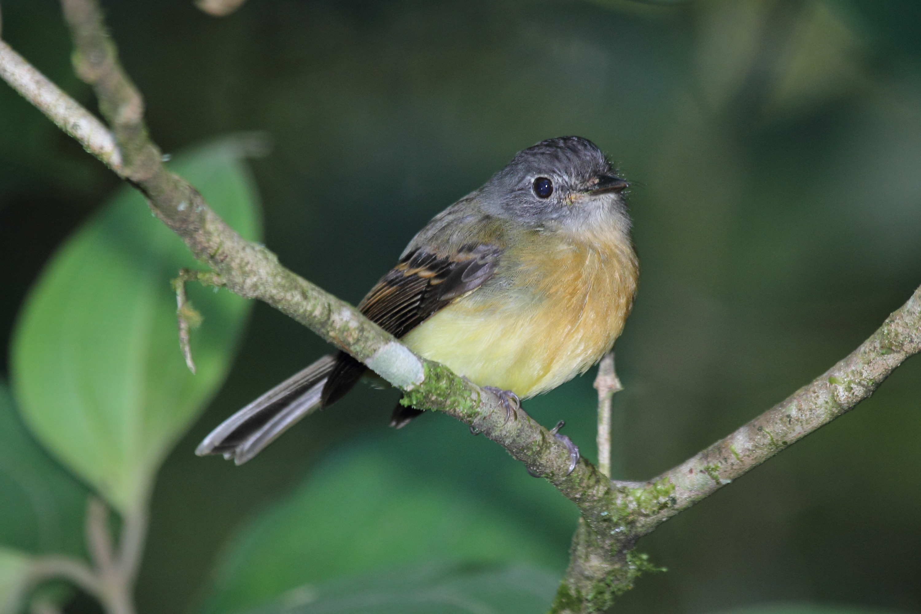 Tawny-chested Flycatcher at Rancho Naturalista, in Costa Rica.